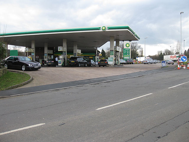 Filling station off the A40 roundabout Unleaded petrol at 93.9p per litre today; diesel priced at 99.9p.